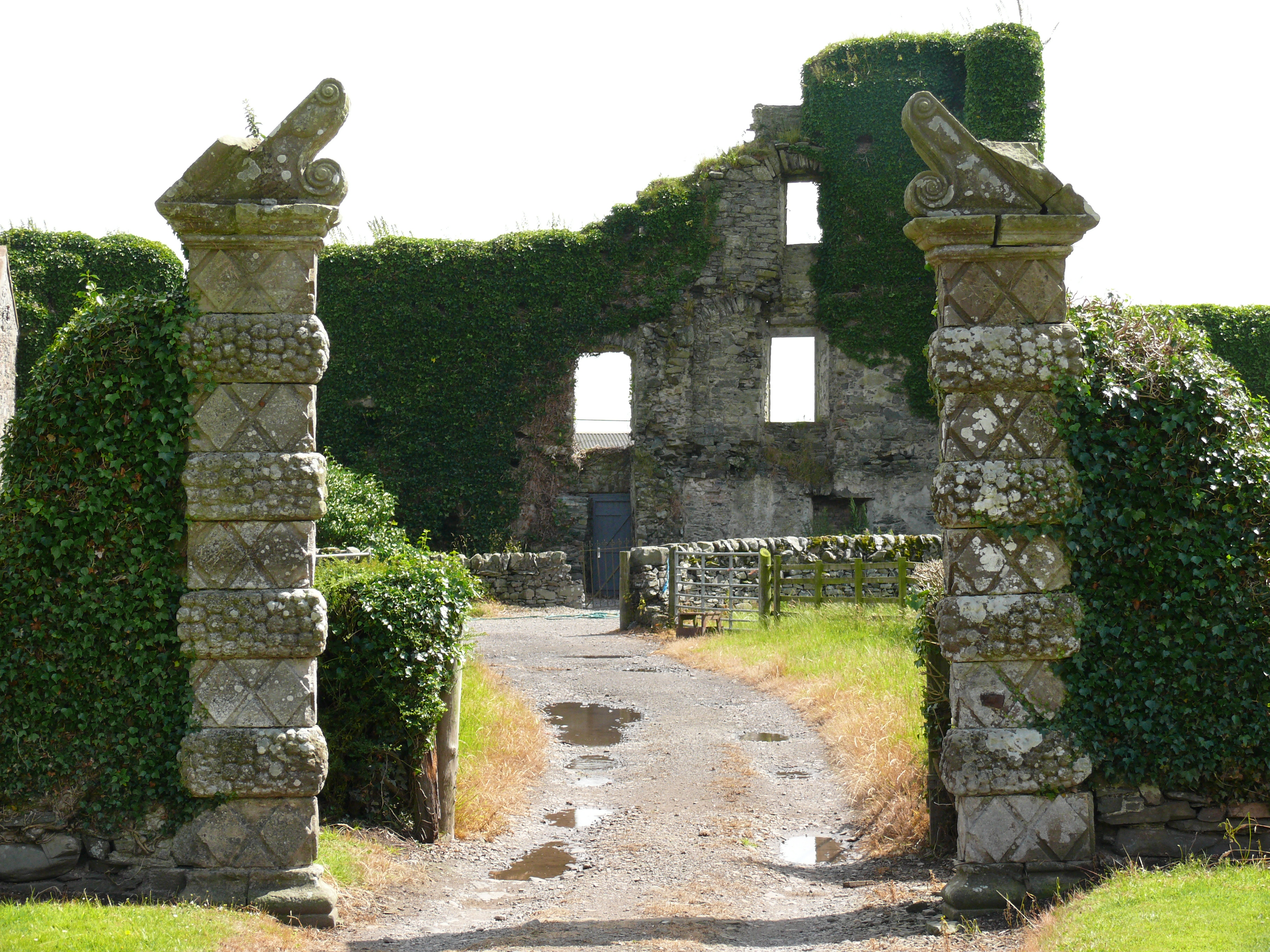 The ruined, ivy covered remains of the castle are said to be haunted by the ghost of Janet Dalrymple, the daughter of Sir James Dalrymple, who walks the ruins on the anniversary of her untimely death, 12th September, 1669.